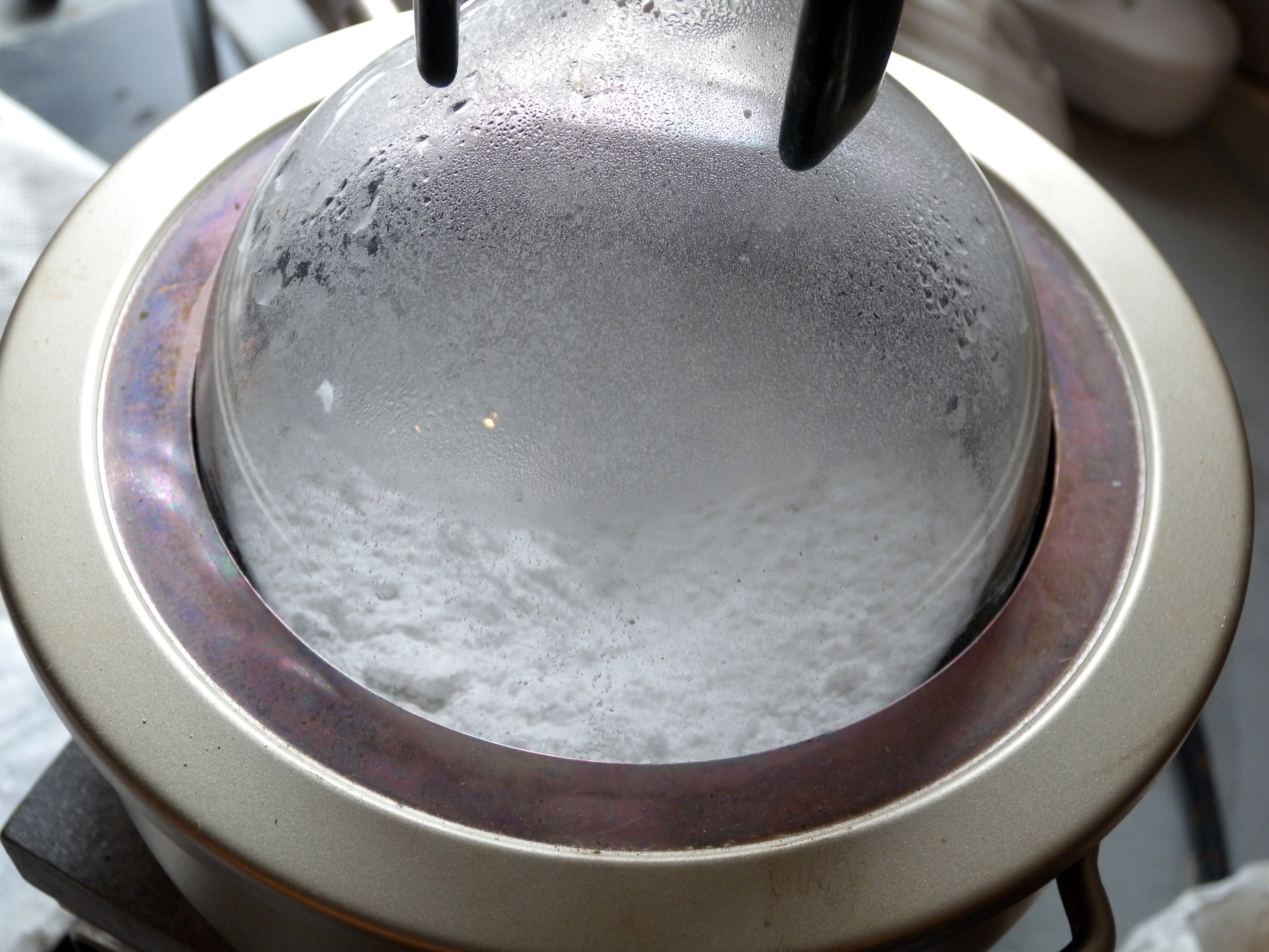 Closeup of the powdered gypsum evolving water vapor while being heated